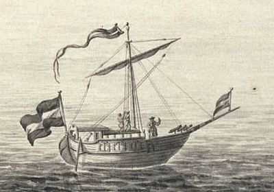 The Face of the Fort Rembang Laying on The Great Java On the North East. Rach, Johannes. View of the fort at Rembang, seen from the road Bottom right a pantjalling, or a pencalang, a medium-sized Javanese trading ship of the VOC, that is preparing to set sail. They wait a little longer for the sloop that is approaching, probably to drop a VOC officer and his wife on the ship.